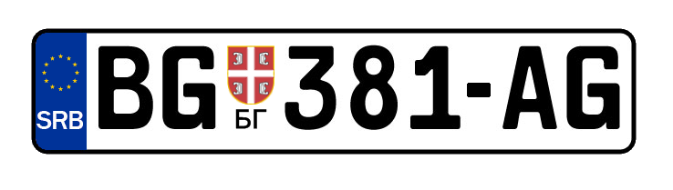 License plates of Serbia